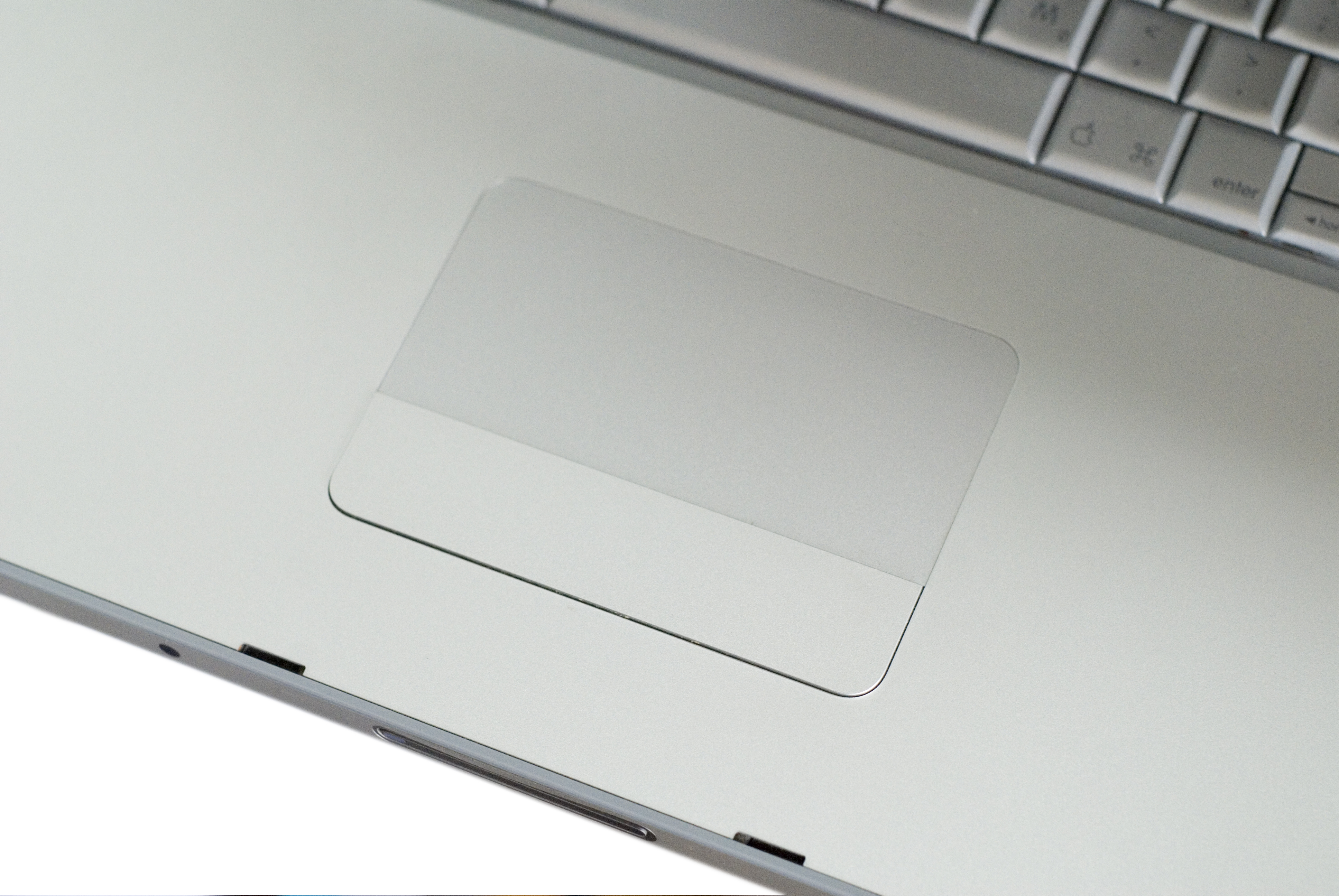 Apple Macbook Pro (Early 2008) 17" Trackpad